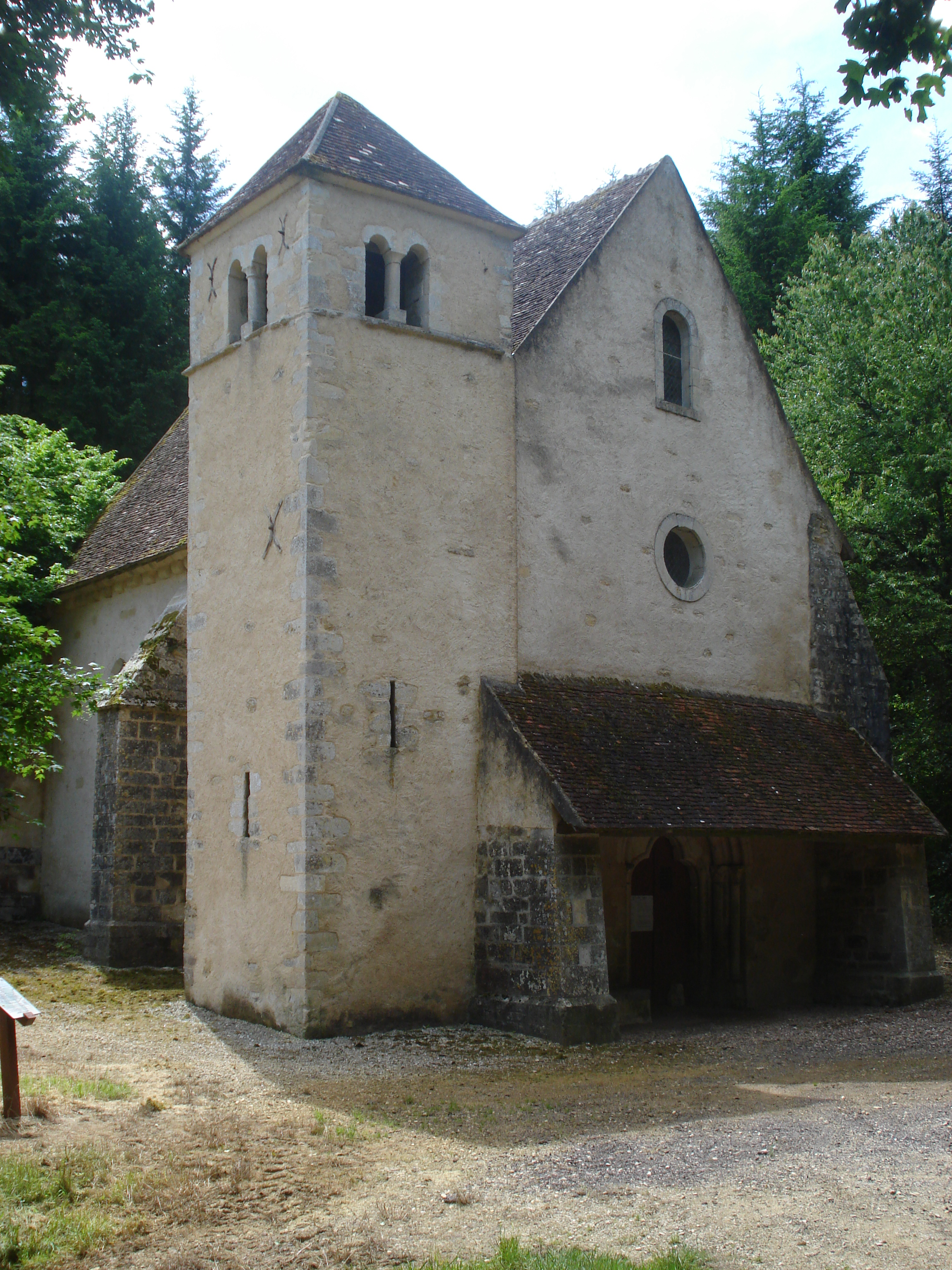 Varzy (Nièvre, Fr), Chapel Saint Lazare, early 13th century, from an disappeared leproserie